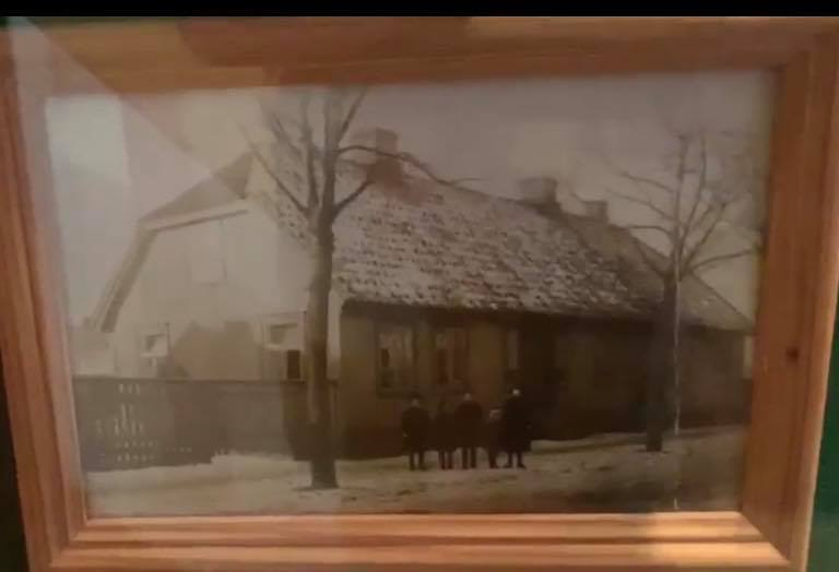 Dette er det eldste bilde av klostergata. Det var sjeldent med fotografier på den tiden, og dette bildet fungerte i prinsippet som et postkort.